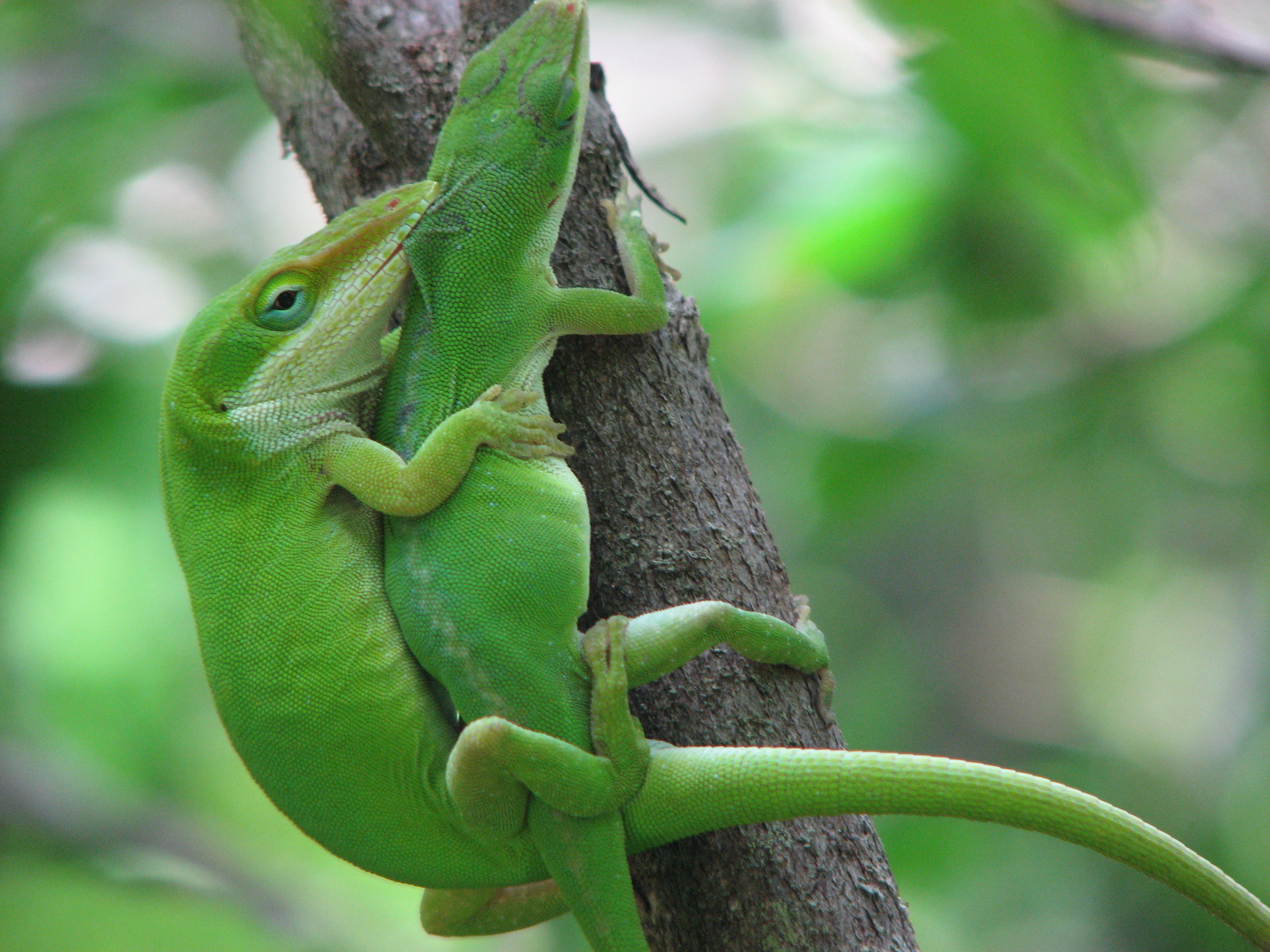 Green Anoles mating in a tree